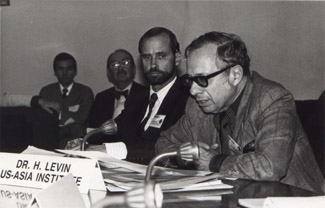 Harvey J. Levin testifying for U.S.-Asia Institute in the 1970s